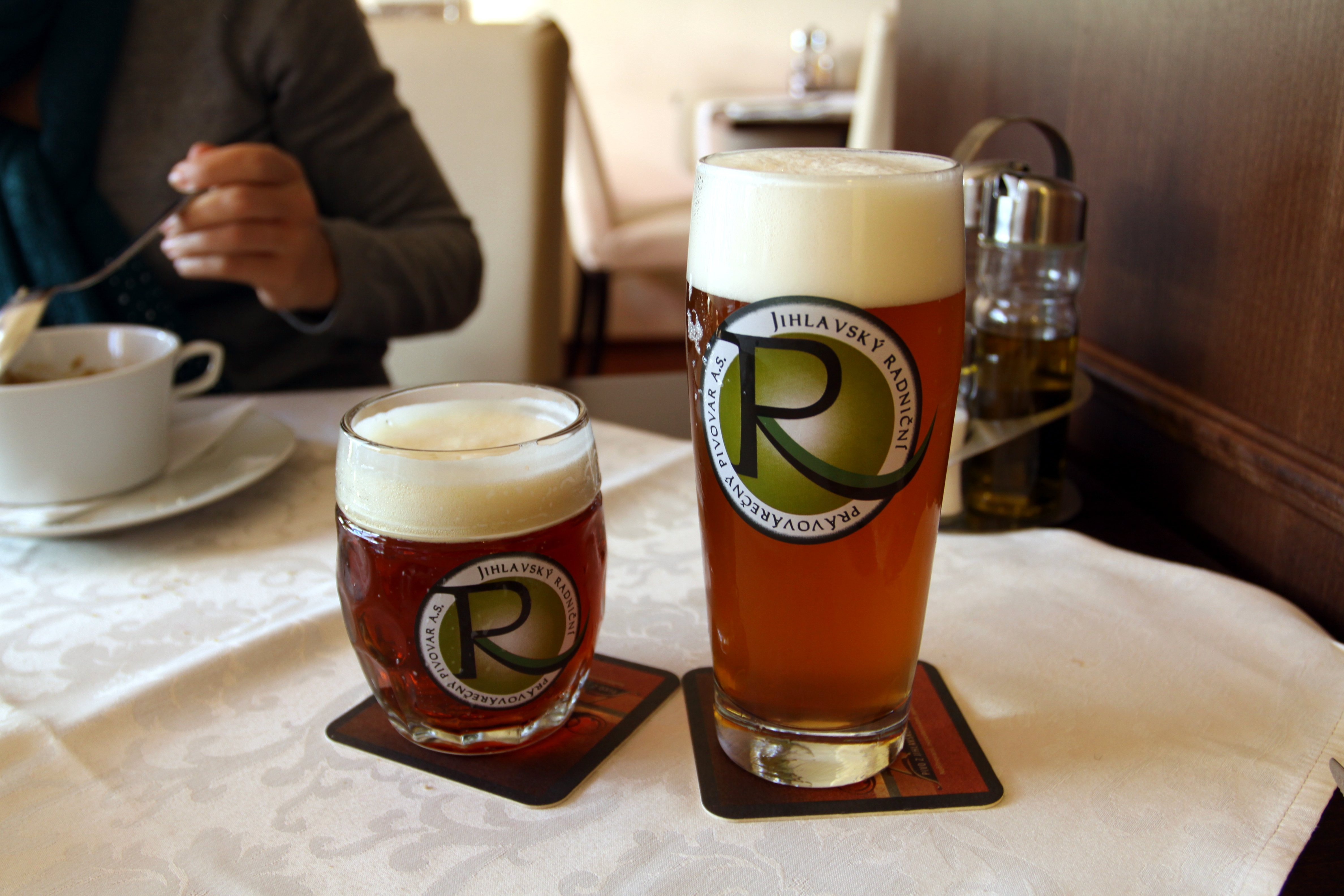 Beer of "Jihlavský radniční právovárečný pivovar", photographed in Jihlava, Jihlava District, Czech Republic